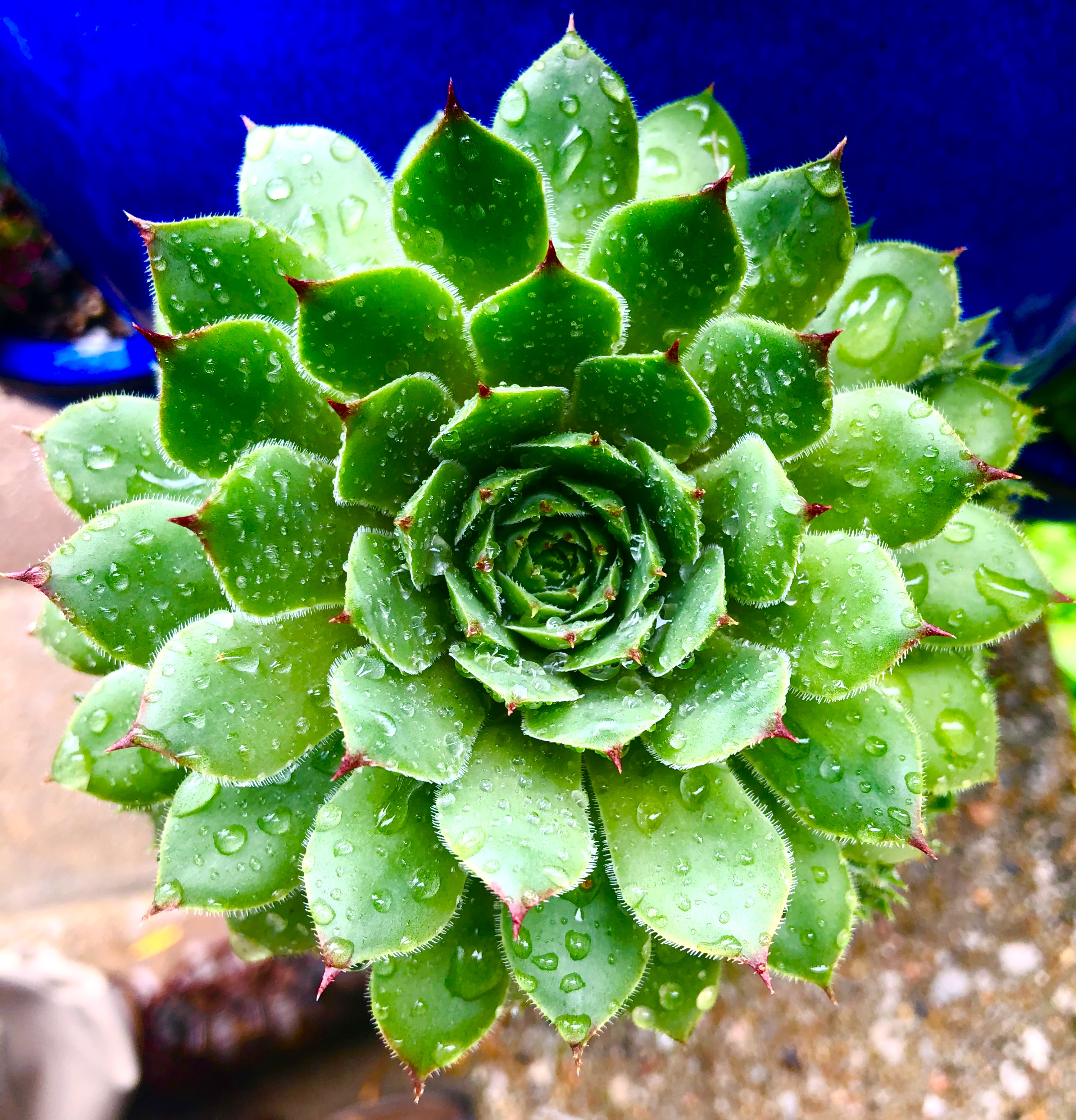 A Sempervivum (Hens & Chickens) in Columbia, Missouri. Taken in June 2020.